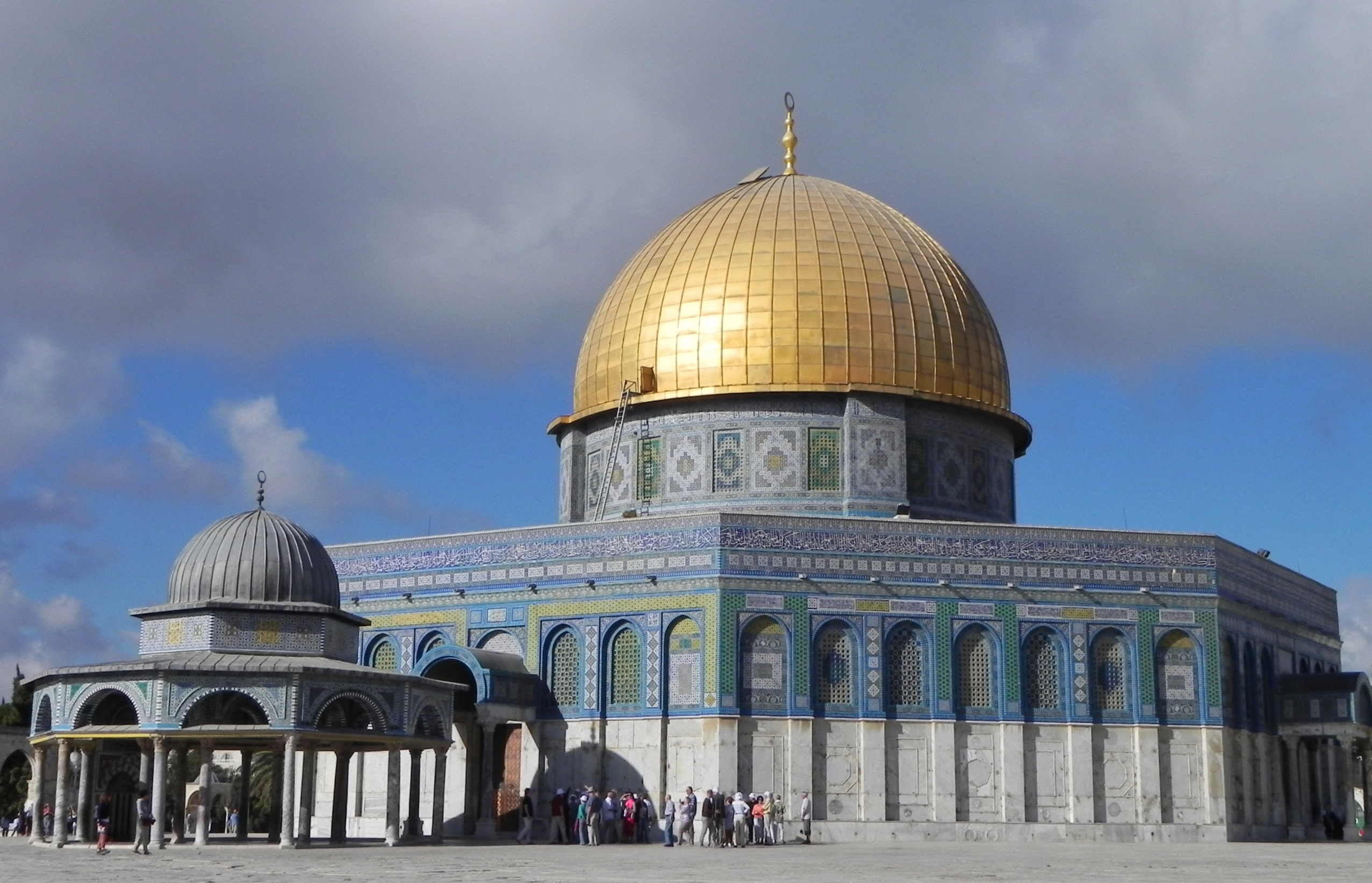 The little dome is called the Dome of the Chain, its purpose is unknown, Old city, Jerusalem.